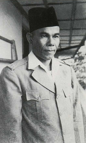 Teungku Daud Beureueh (1898–1987), leader of PUSA (Islamic Scholar Union of Aceh), governor of Aceh 1948-1952, and leader of Aceh Darul Islam rebellion 1953-1962